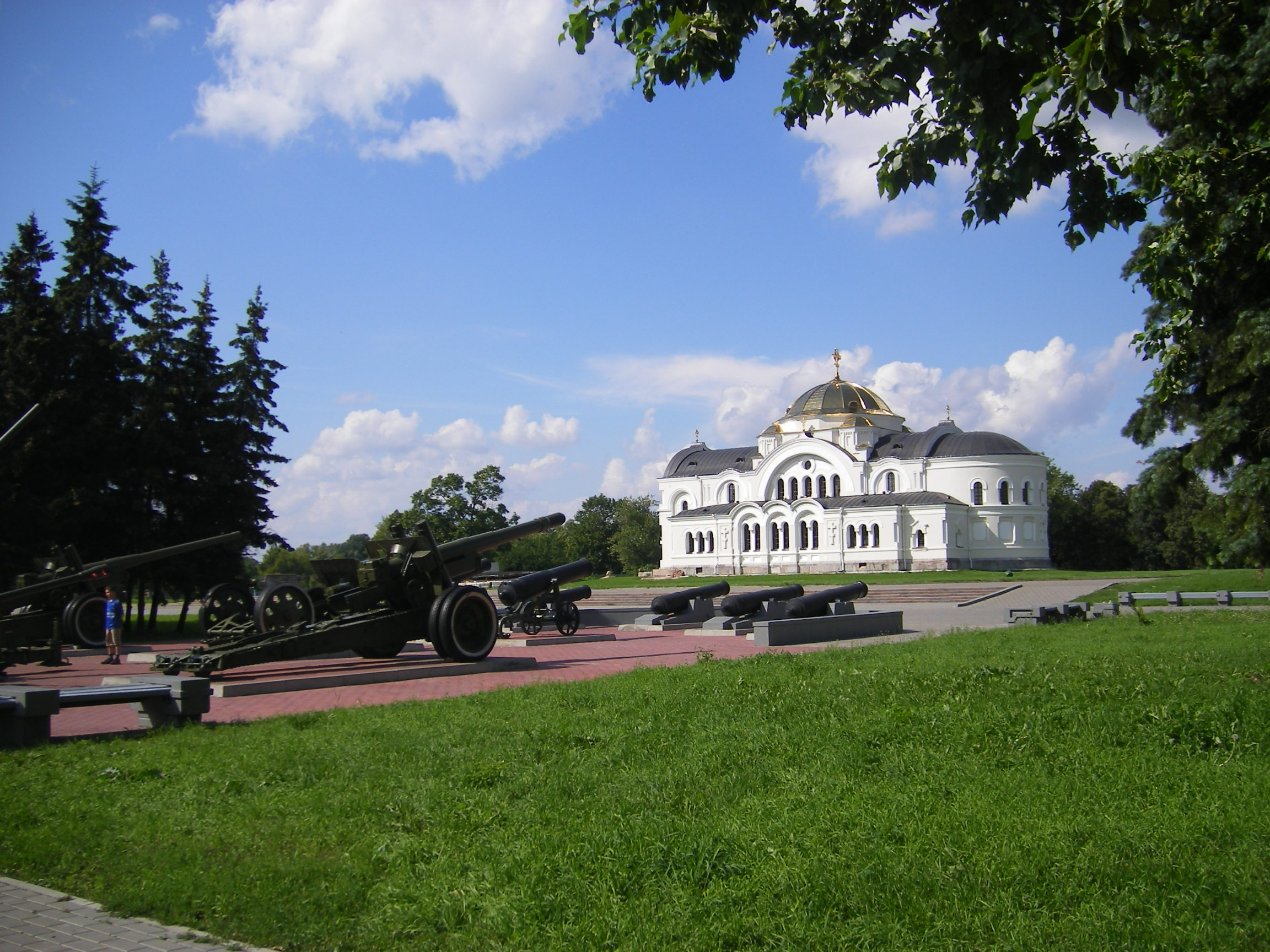 Fortress church of Saint Nicholas in Brest, Belarus.